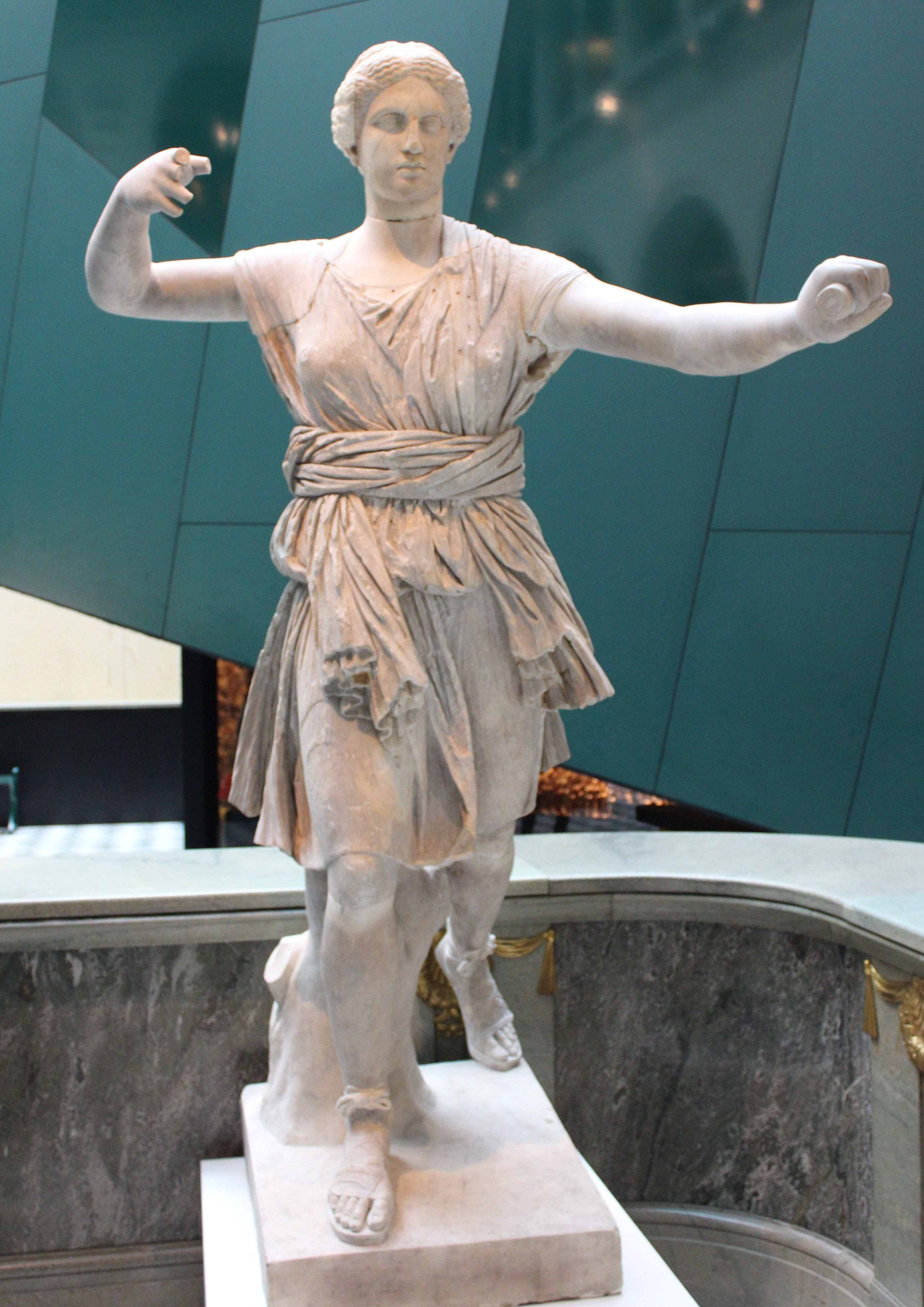 Statue representing the godess Artemis. Deposition from the Medicinska föreningen. Karl Bergsten's collection This is a photo of an artwork at the Mediterranean Museum in Sweden with the identifier: Aremis statue